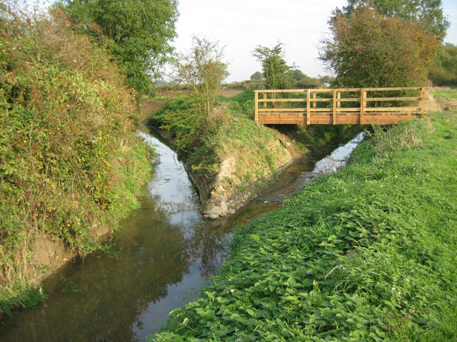 New Footbridge, near Granby, Nottinghamshire. This brand new footbridge takes the public footpath across the Rundle Beck where it joins The Grimmer. The resulting stream is known as the River Whipling a few km further down stream. This clearly shows how important the network of streams are for draining the heavy clay soils of the Vale of Belvoir. After a period of heavy rain the water level can be nearing the top of the bank.